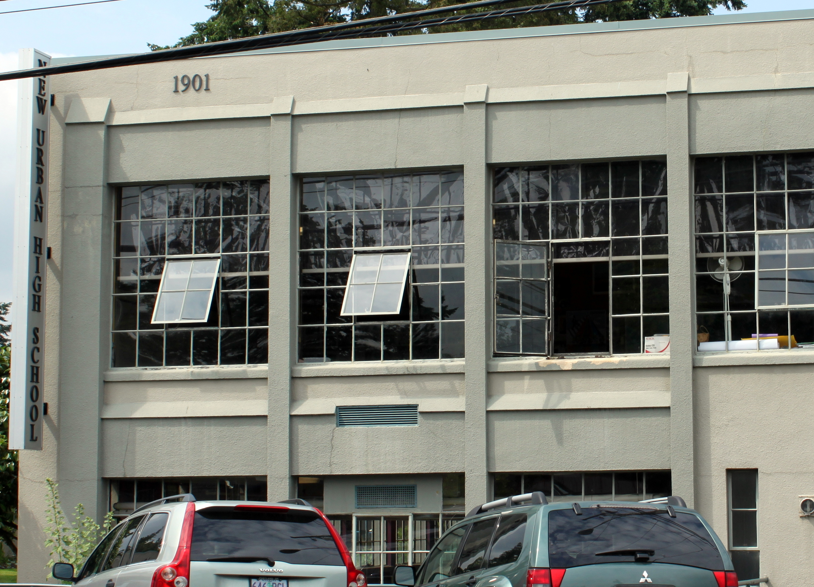 New Urban High School in the Oak Grove are of Milwaukie, Oregon near Portland, Oregon.